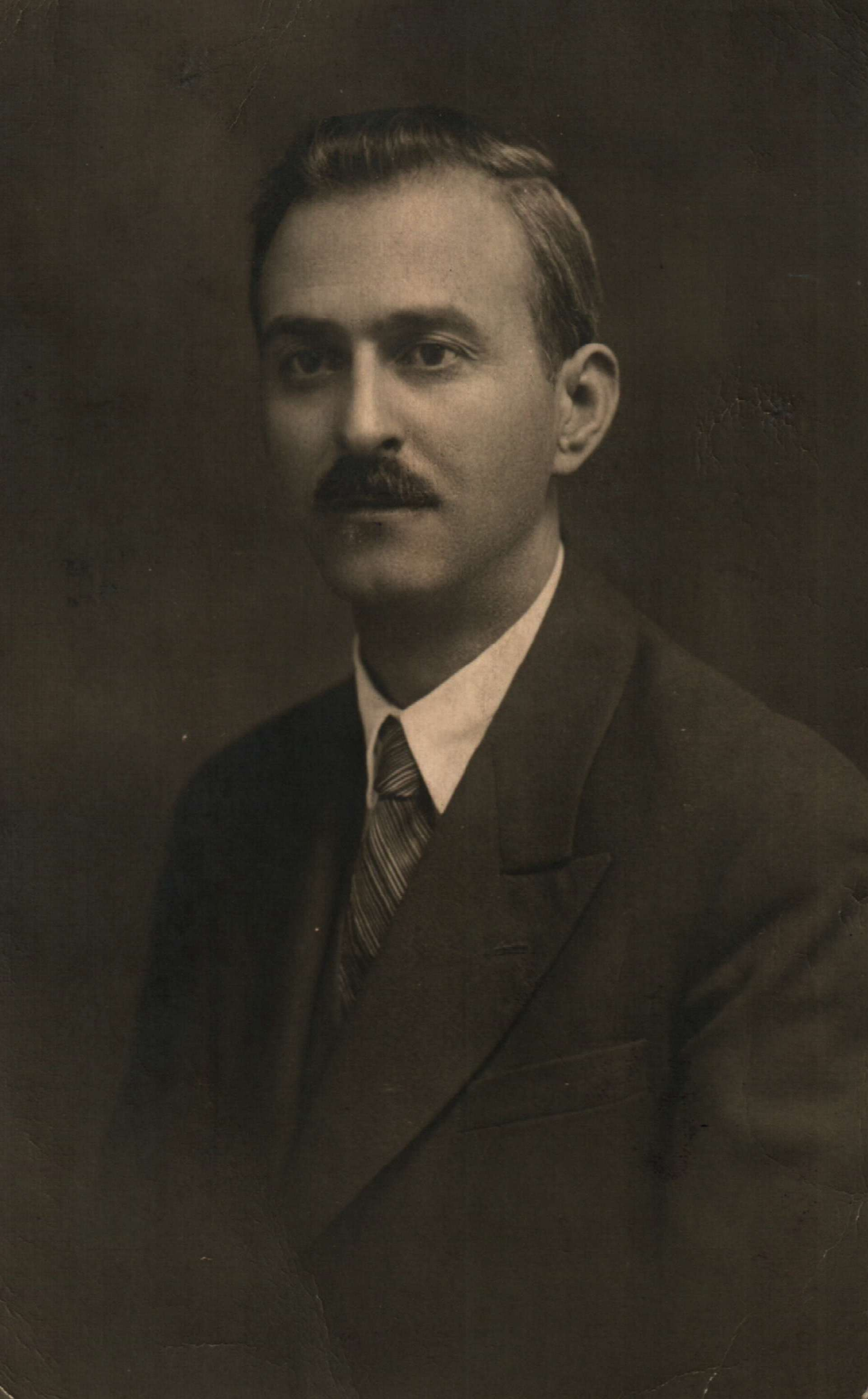 Bulgarian musician Ivan Kavaldzhiev (1891-1959)